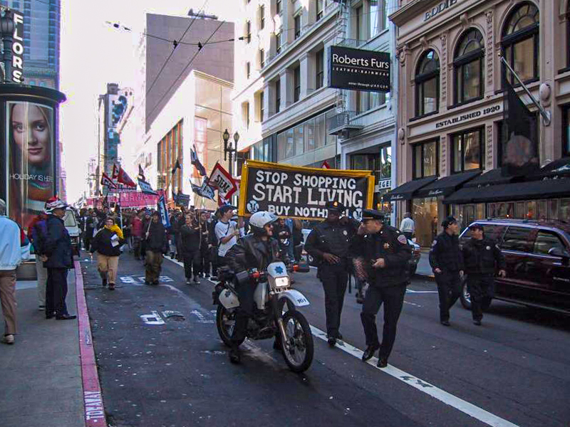 Buy Nothing Day demonstration, downtown San Francisco